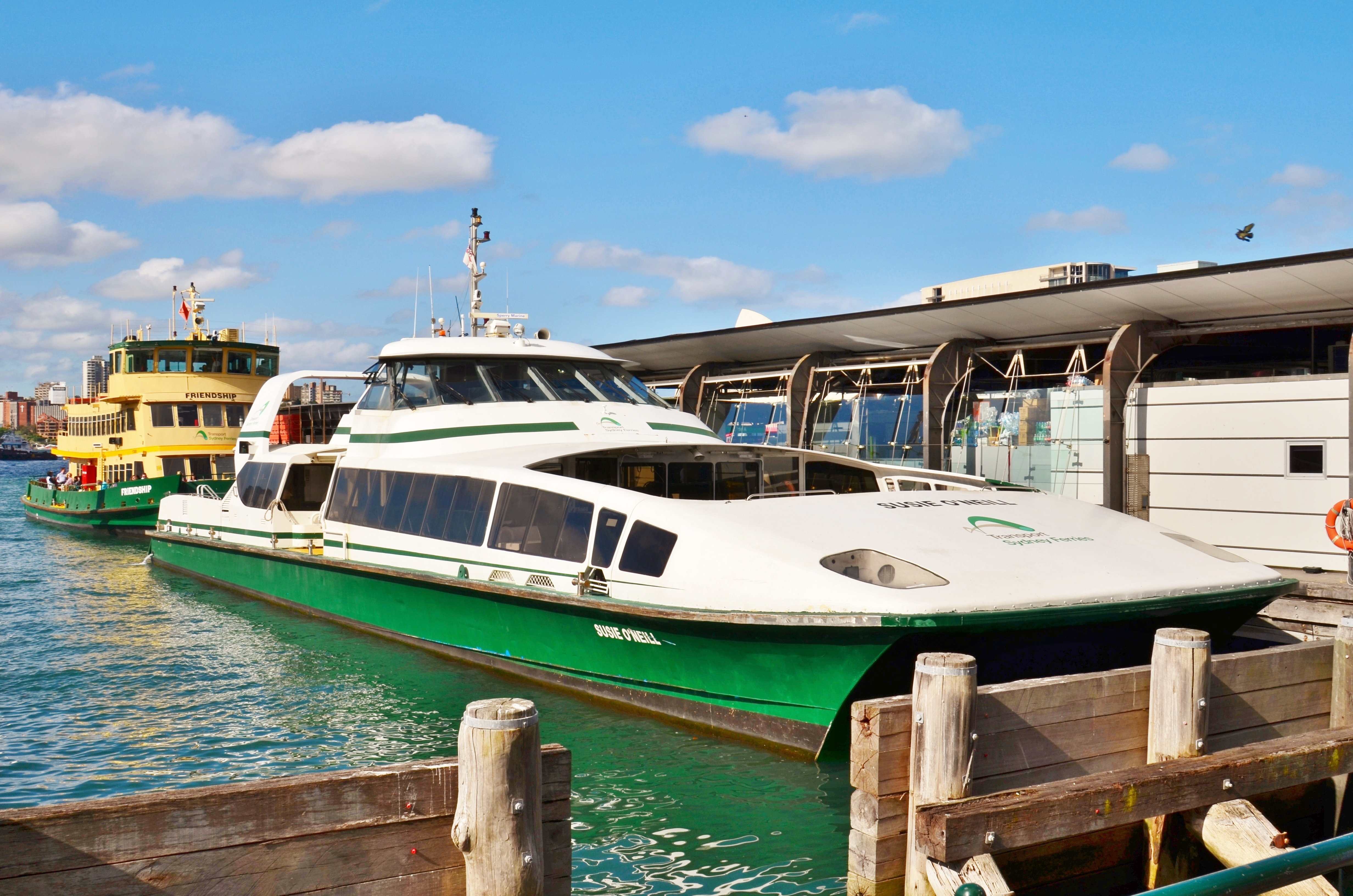 Sydney Ferries' Sydney SuperCat Susie O'Neill laying over at Circular Quay, Sydney